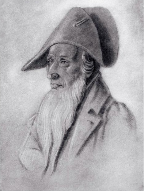 Rabbi Jacob NATANAEL ben Naphtali Zvi Hirsch WEIL (or Weill, 1687–1769), head of yeshiva in Prague. In 1750 appointed rabbi of Karlsruhe (Baden). Talmudist and sage.